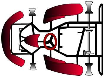 Go Kart Chassis